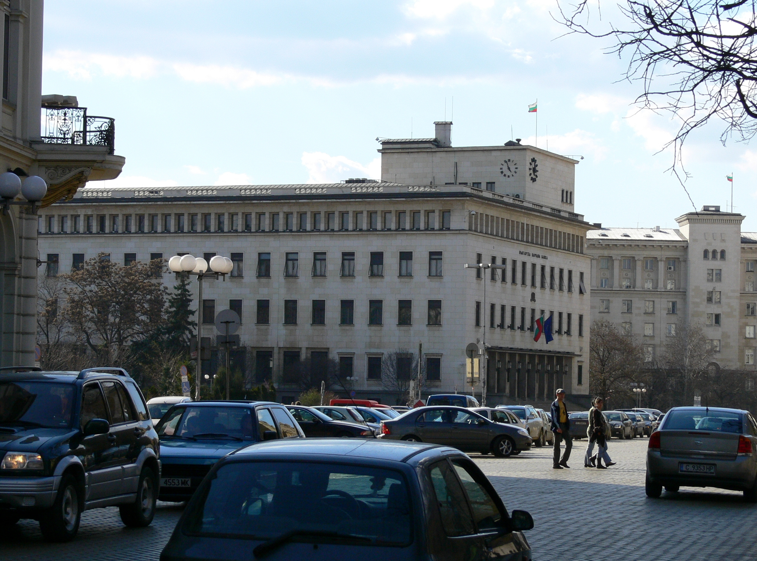 Bulgarian National Bank, Sofia, Bulgaria